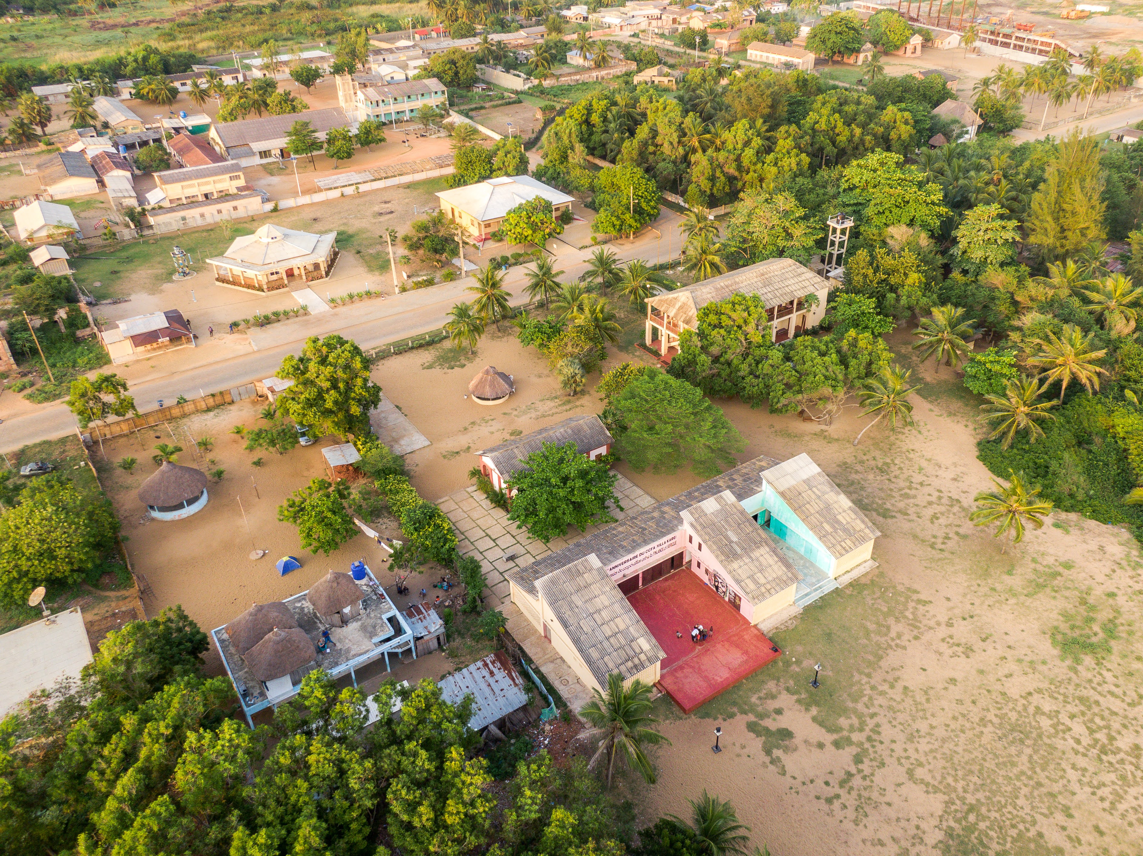 Villa Karo is a Finnish-African cultural centre and a residence for artists in Grand-Popo, Benin